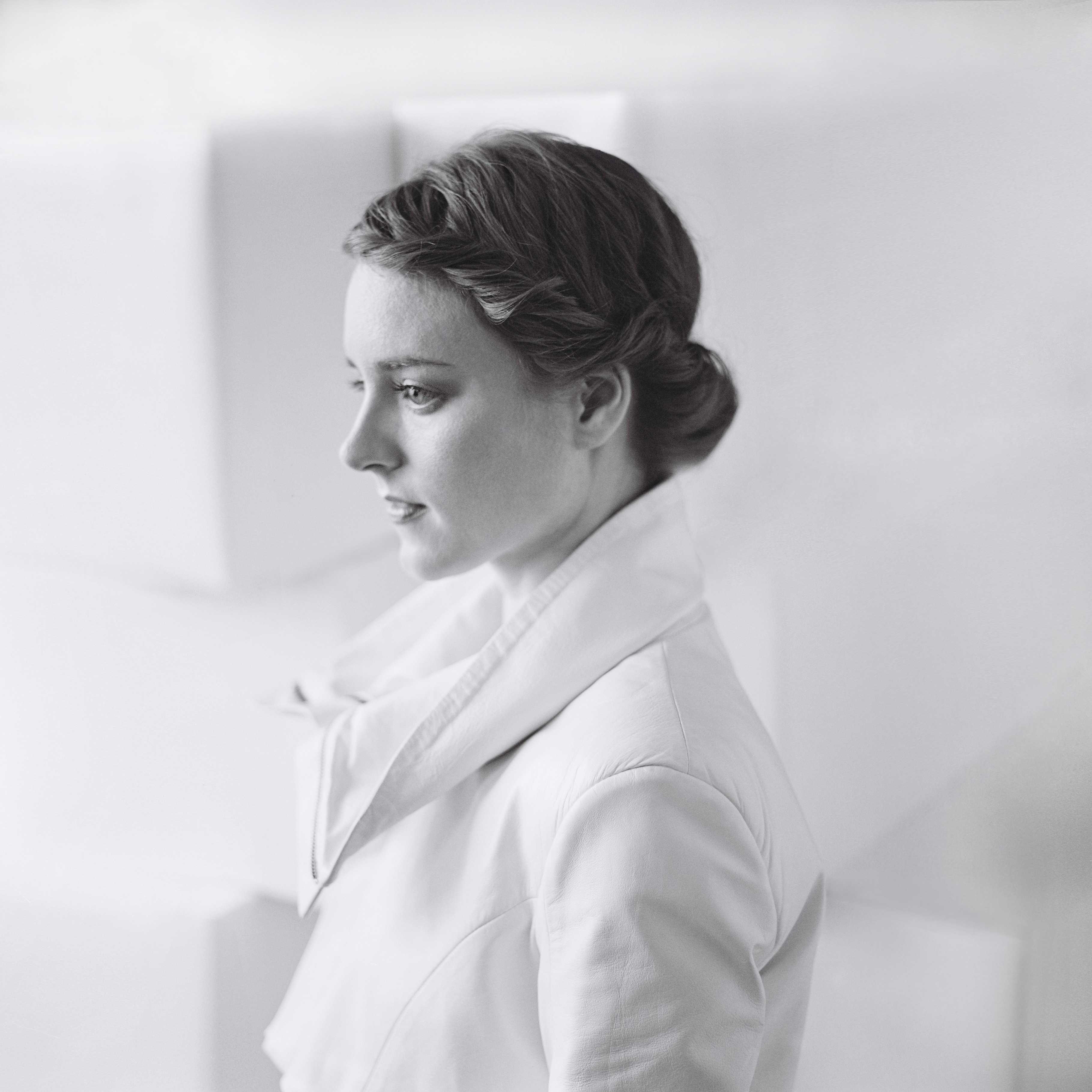 Hannah Peel Photo taken by Emily Dennsion Hair by Hiro